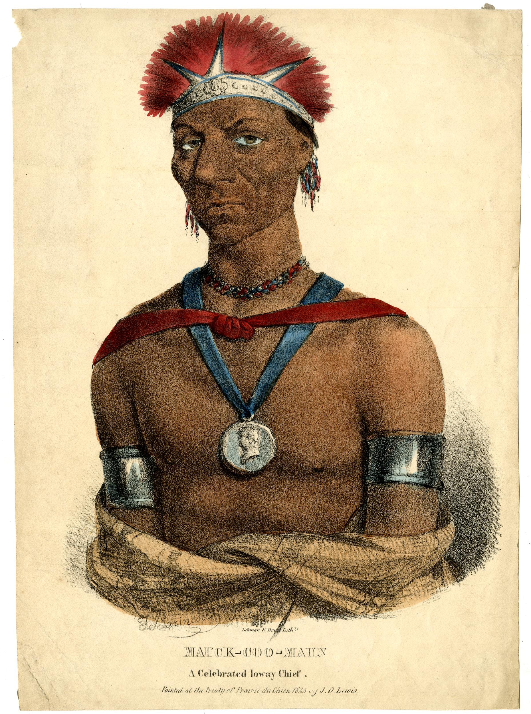 Portrait of Mauck-Coo-Maun, half-length slightly to left, looking to front, bare chest, with medal; after Lewis. 1836 Hand-coloured lithograph